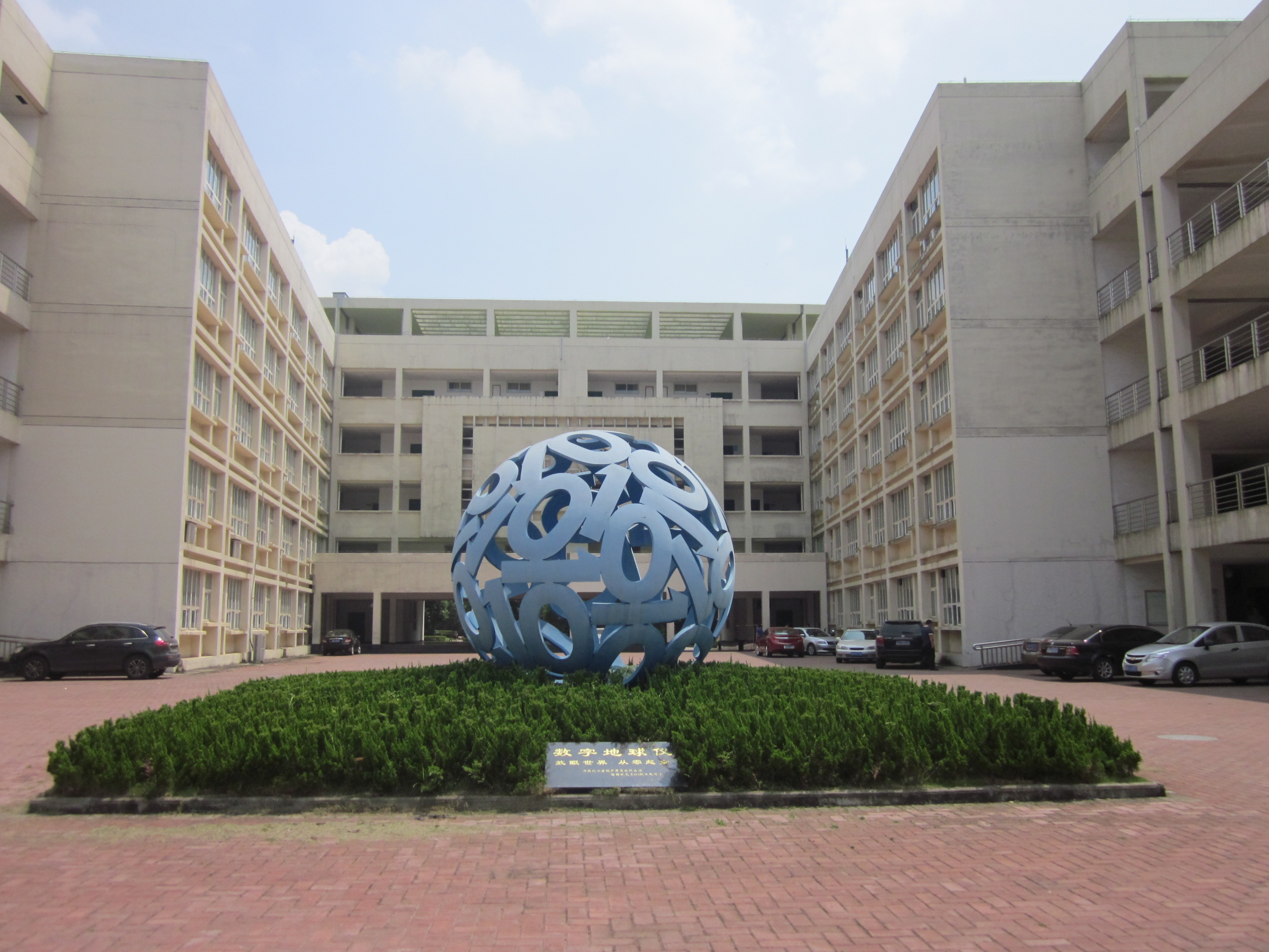 Changsha University (CCSU